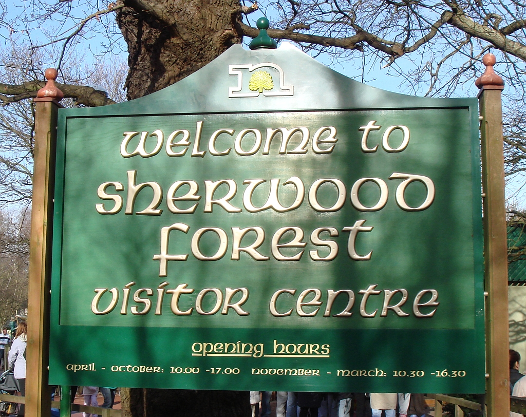 Sherwood Forest visitor centre sign